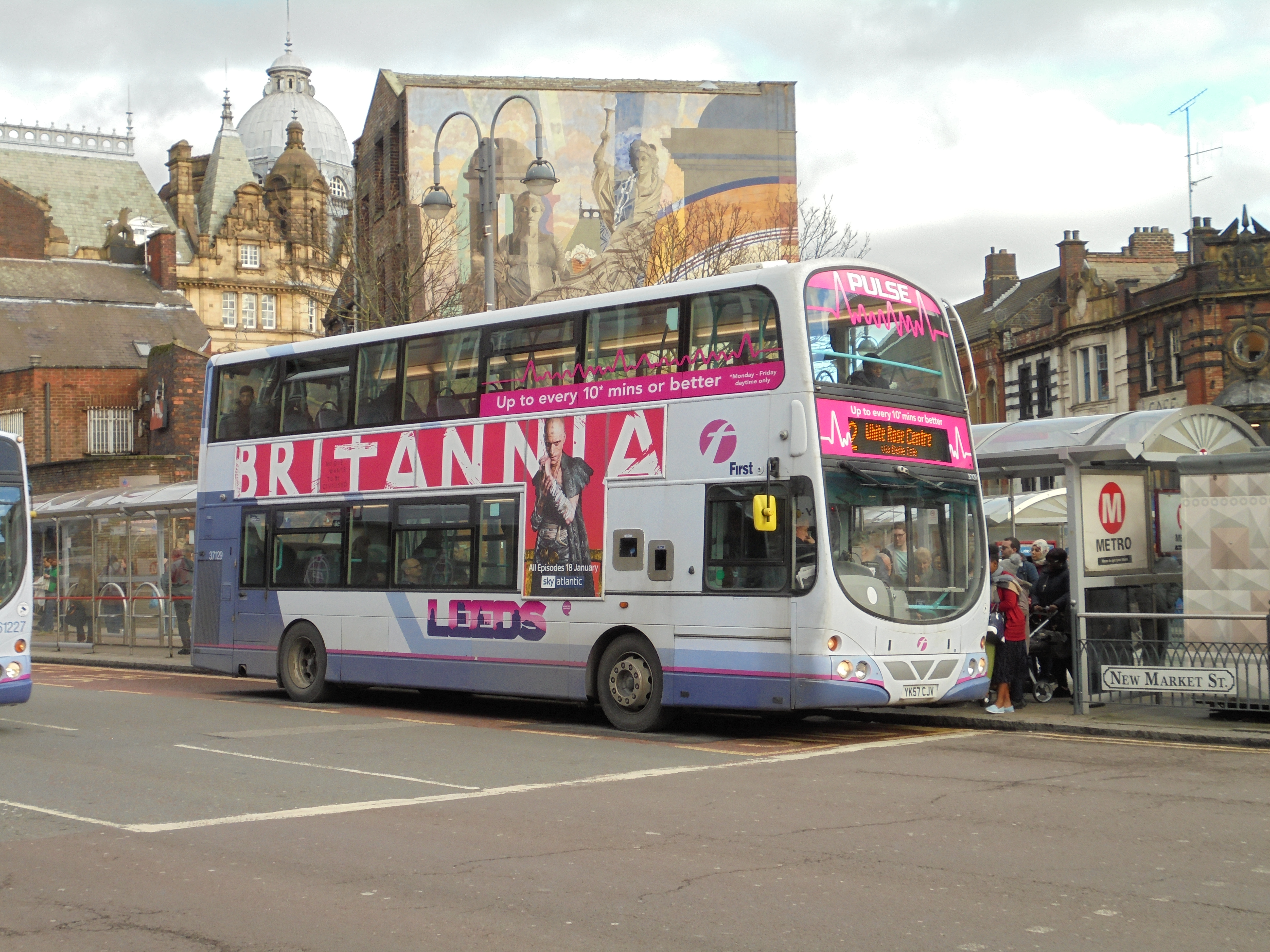 Vicar Lane, Leeds, West Yorkshire. Taken on the afternoon of Friday the 26th of January 2018.